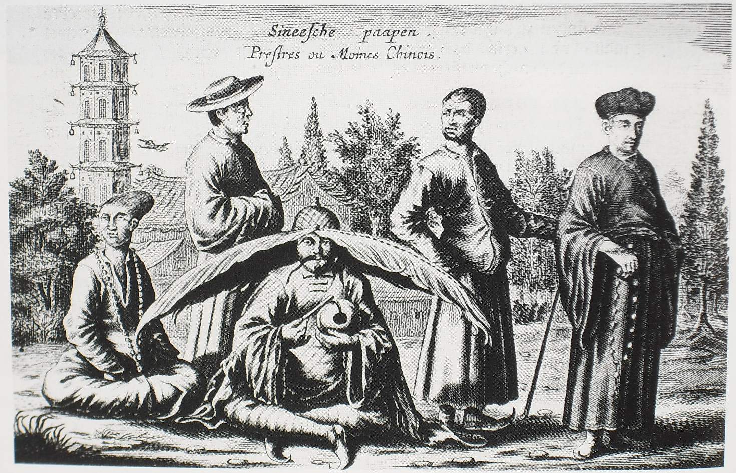 "Chinese priests and monks", drawn by the Dutch visitors in 1655-1658. According to Lach & Kley (1993), the leftmost sitting person wears the headgear of a Mongol Lama; the sitting person in the middle, with a big hat, holds a muyu ("wooden fish"). The standing man on the right, with beads, is a Buddhist priest. The other two standing people may be Buddhist monks.